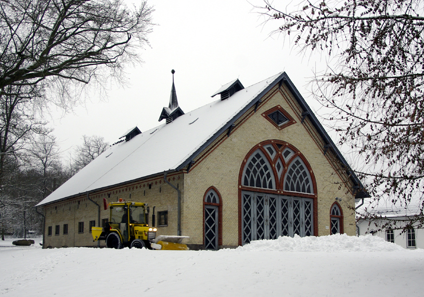 The Ice House is the geological and paleontological display room of the Natural History Museum Flensburg in Germany.